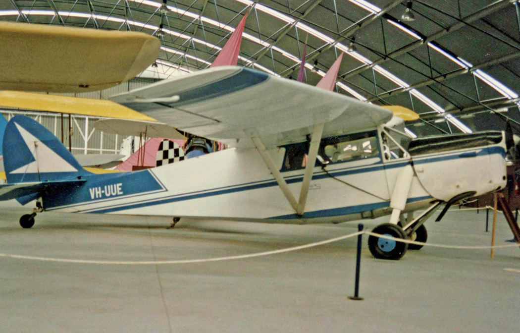 DH.85 Leopard Moth, built in 1935, exhibited in airworthy condition at the Drage Air World Museum at Wangaratta, Victoria in 1988.